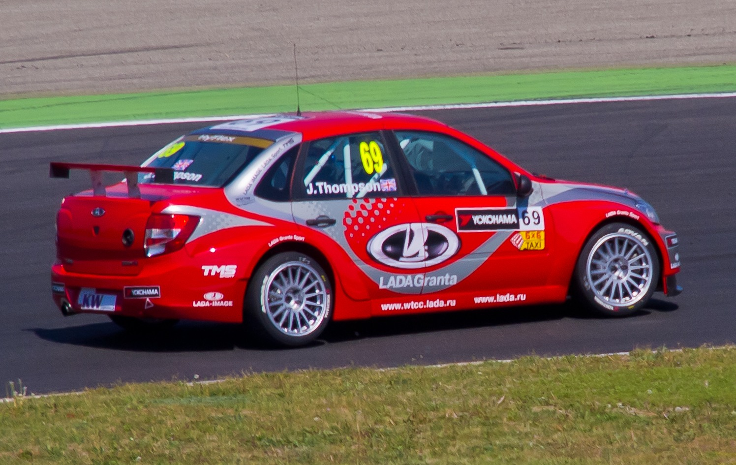 Lada Granta WTCC James Thomson 2012 Race of Hungary